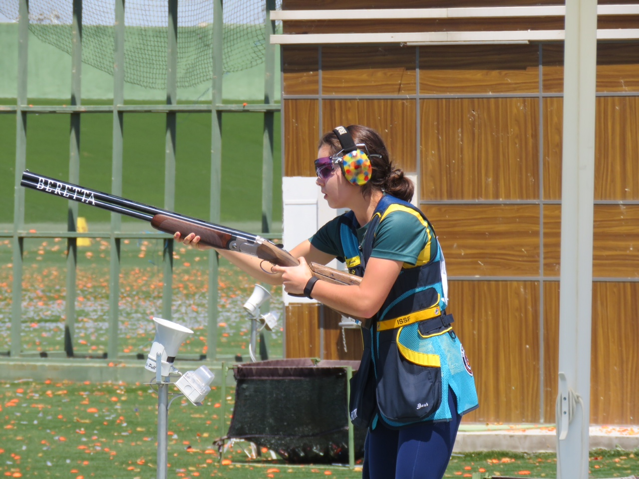 Aislin Jones - ISSF World Cup Baku 2016